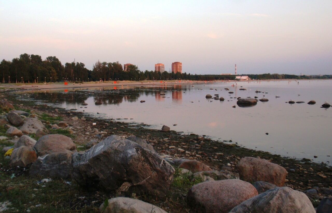 Stroomi Beach seen from Kopli Beach in Tallinn.